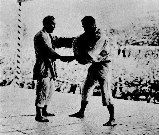 Japanese judoka, Kanbē Furusawa and Kazuzō Kudō, at the final of Meiji Jingu Sports Festival in 1926.